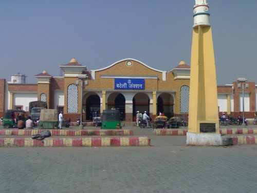 bareilly railways station outer view